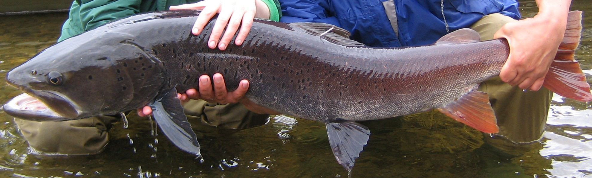 Picture of a taimen (Hucho taimen) caught in the Uur River (Northwestern Mongolia) and tagged and released